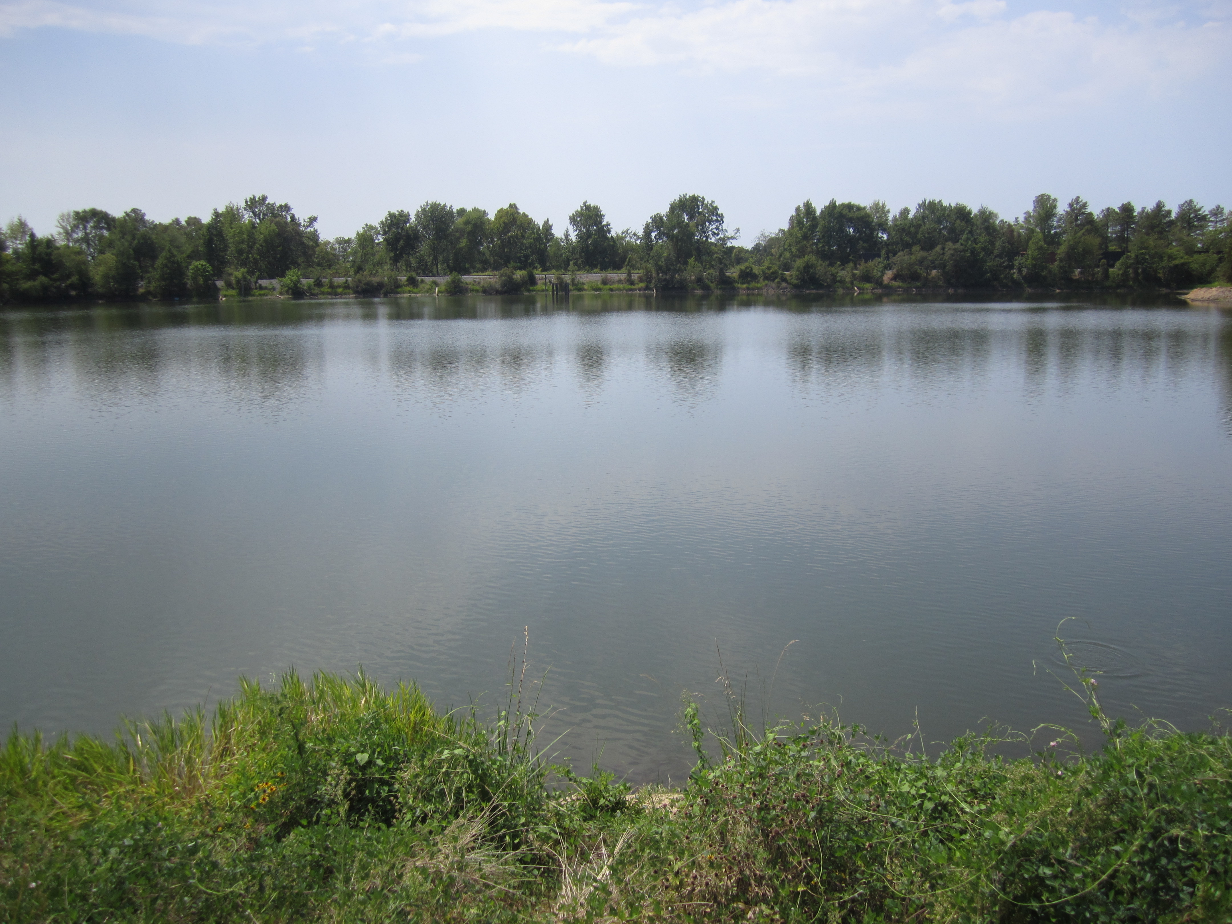 I took photo of Big Sandy Lake in Big Sandy, TX, with Canon camera.